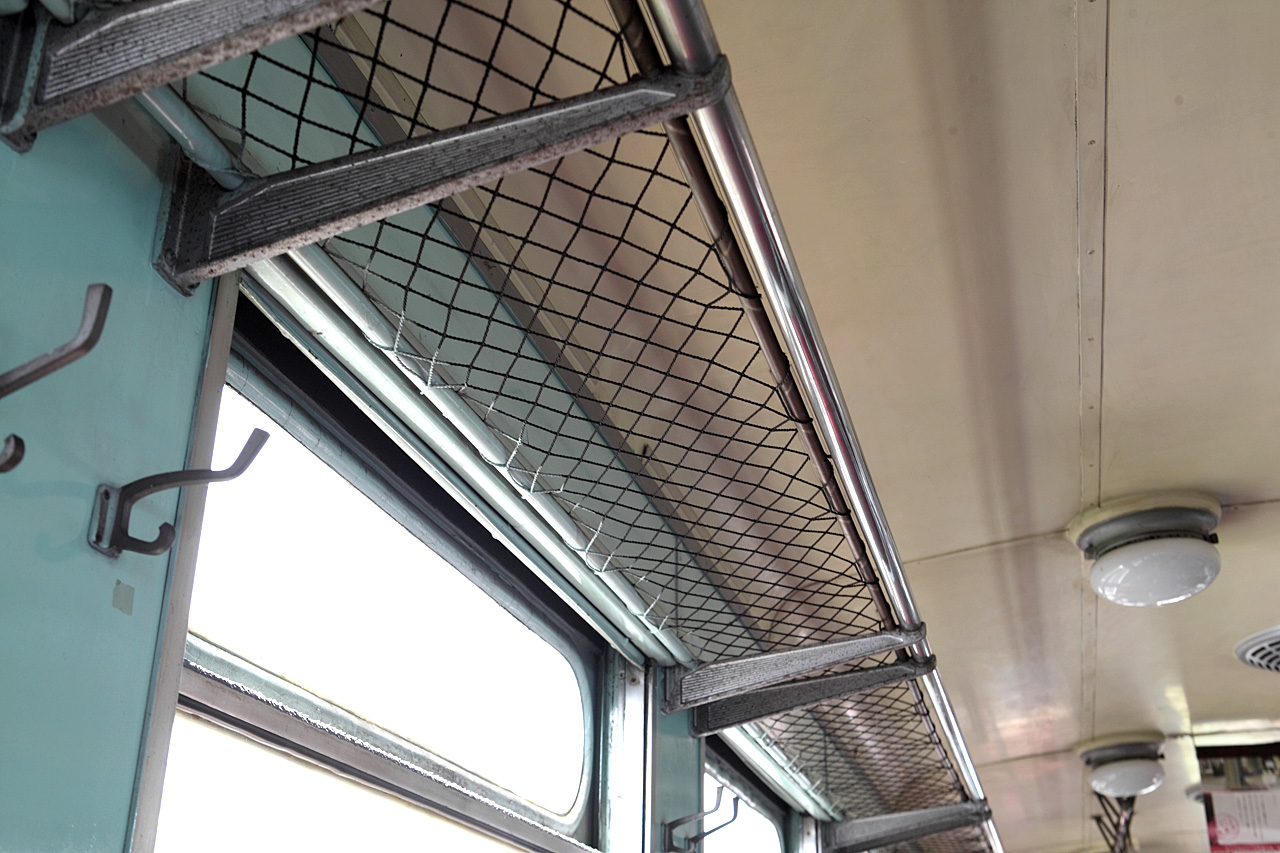 Kishu Railway Kiha 600